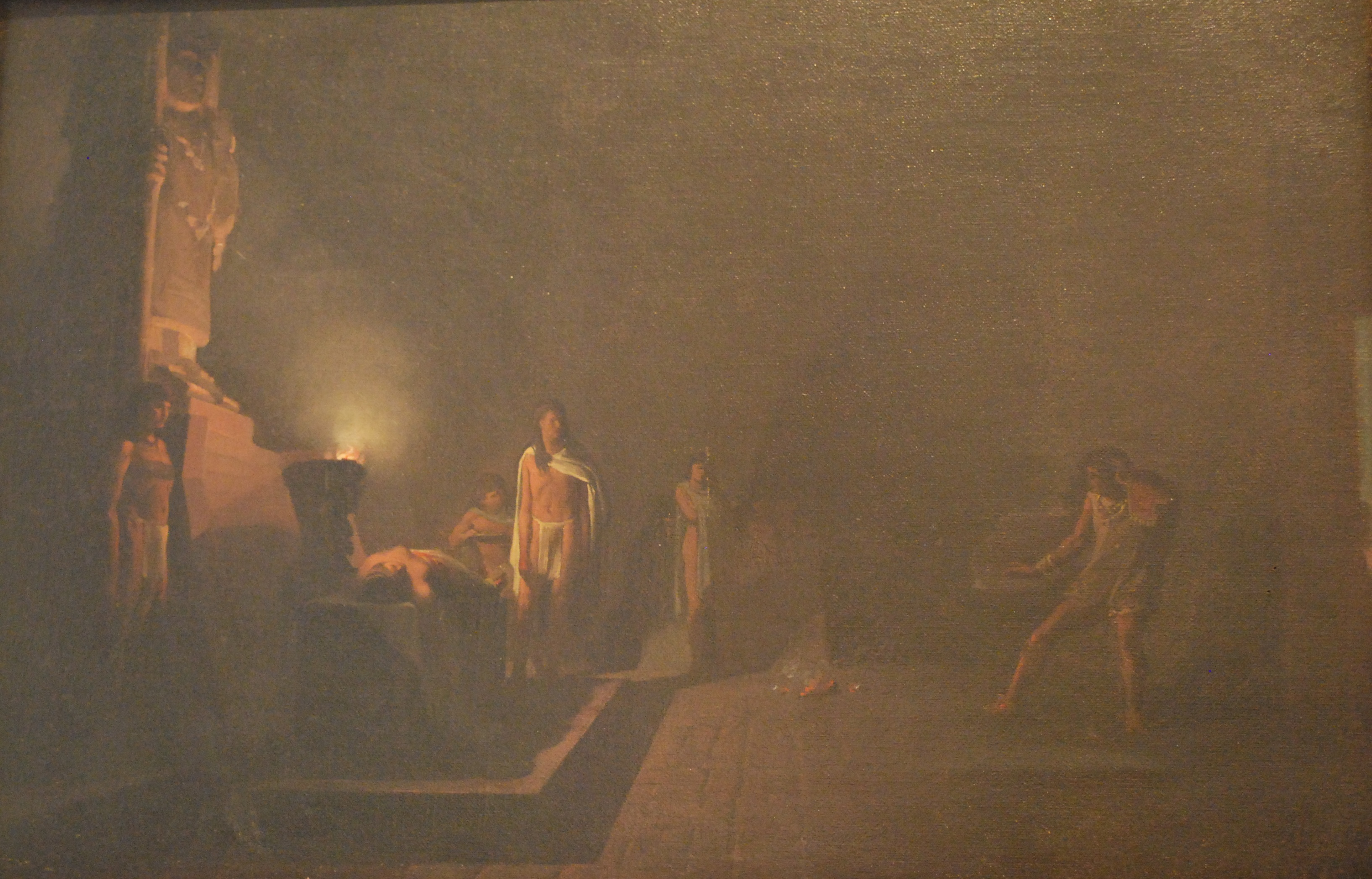 "El sacrificio de una princesa Acolhua" by Petronilo Monroy (1836-1882) on display at the Museo Nacional de Arte in Mexico City